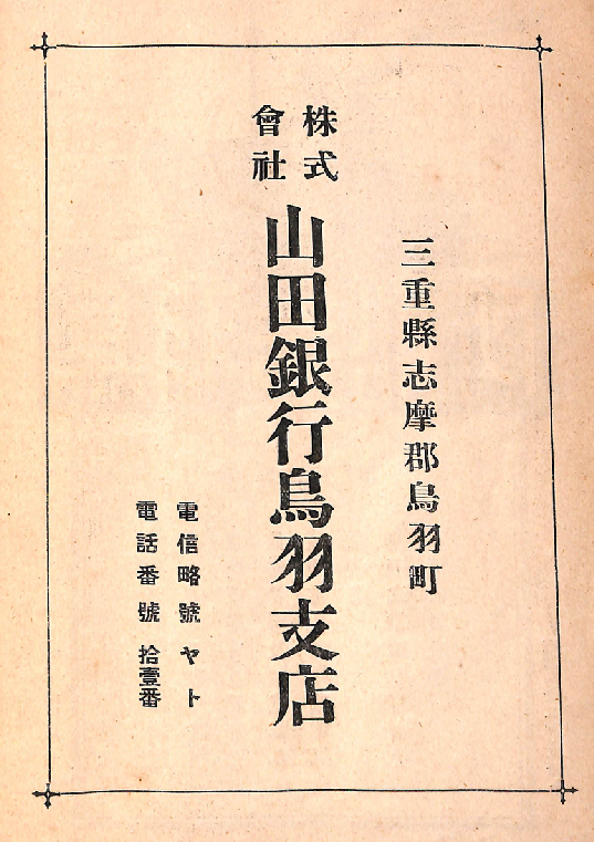 This is an advertisement of Yamada bank Toba branch, which was located in Toba, Mie, Japan.